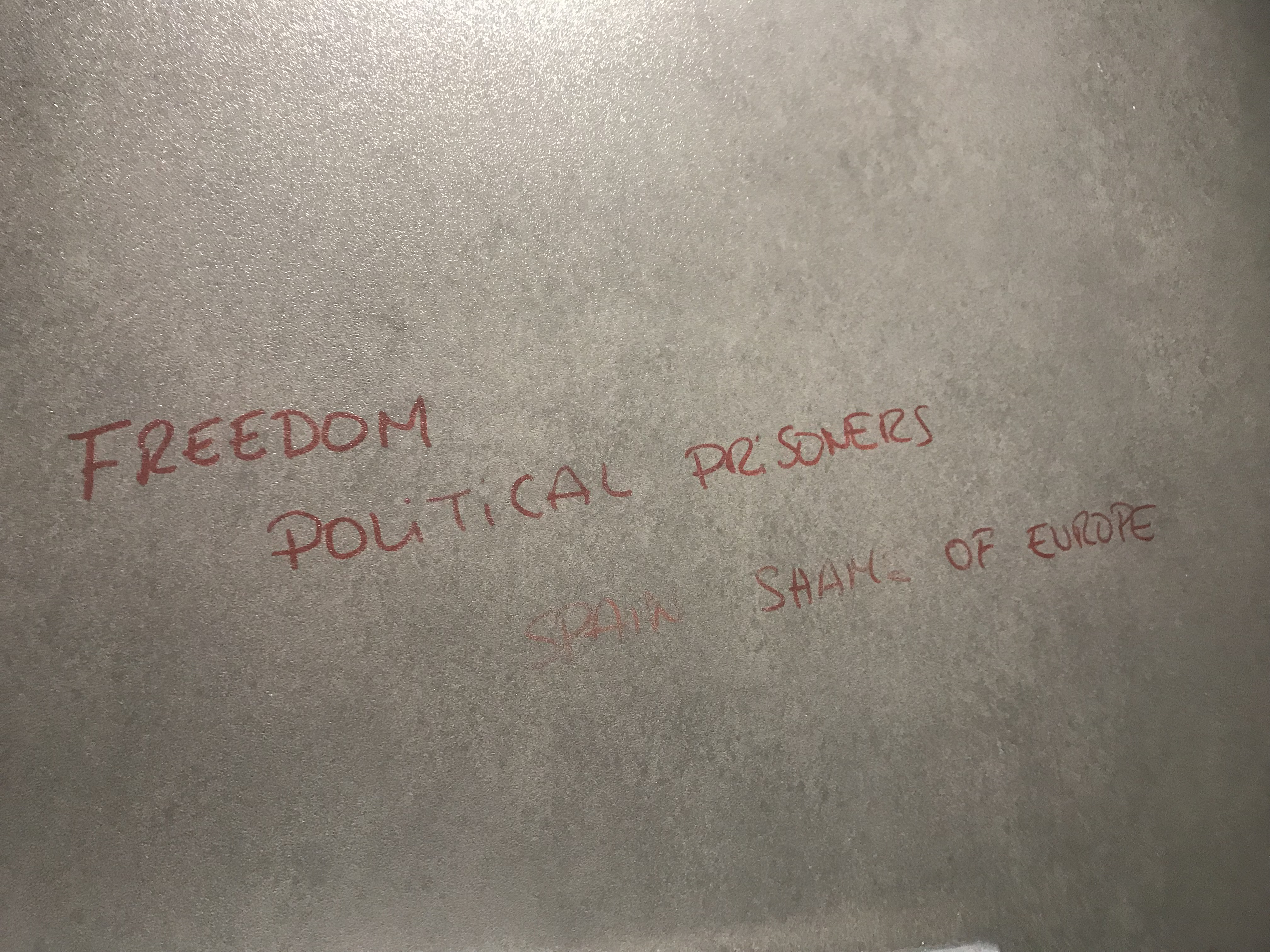 201803 Anti-Spain slogan on the wall of a restroom at BRU. Believed to be related to the Independence Movement of Cataluna.